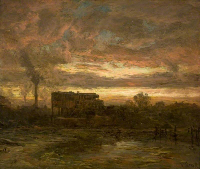 Glover, William; Glenboig Clay Mill; Glasgow Museums